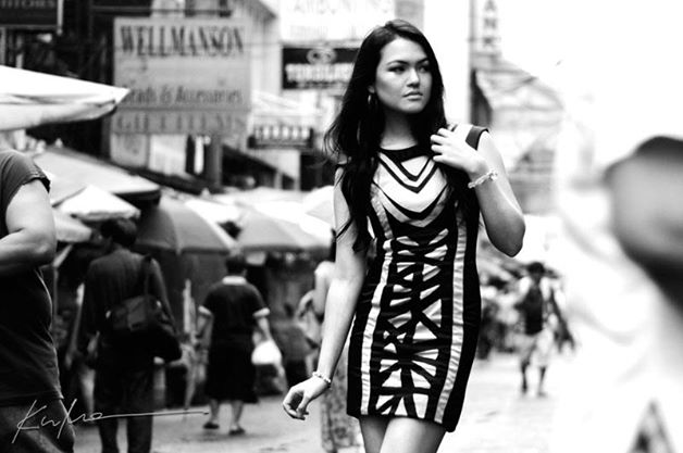 Kirstie Joan in Quiapo, Philippines